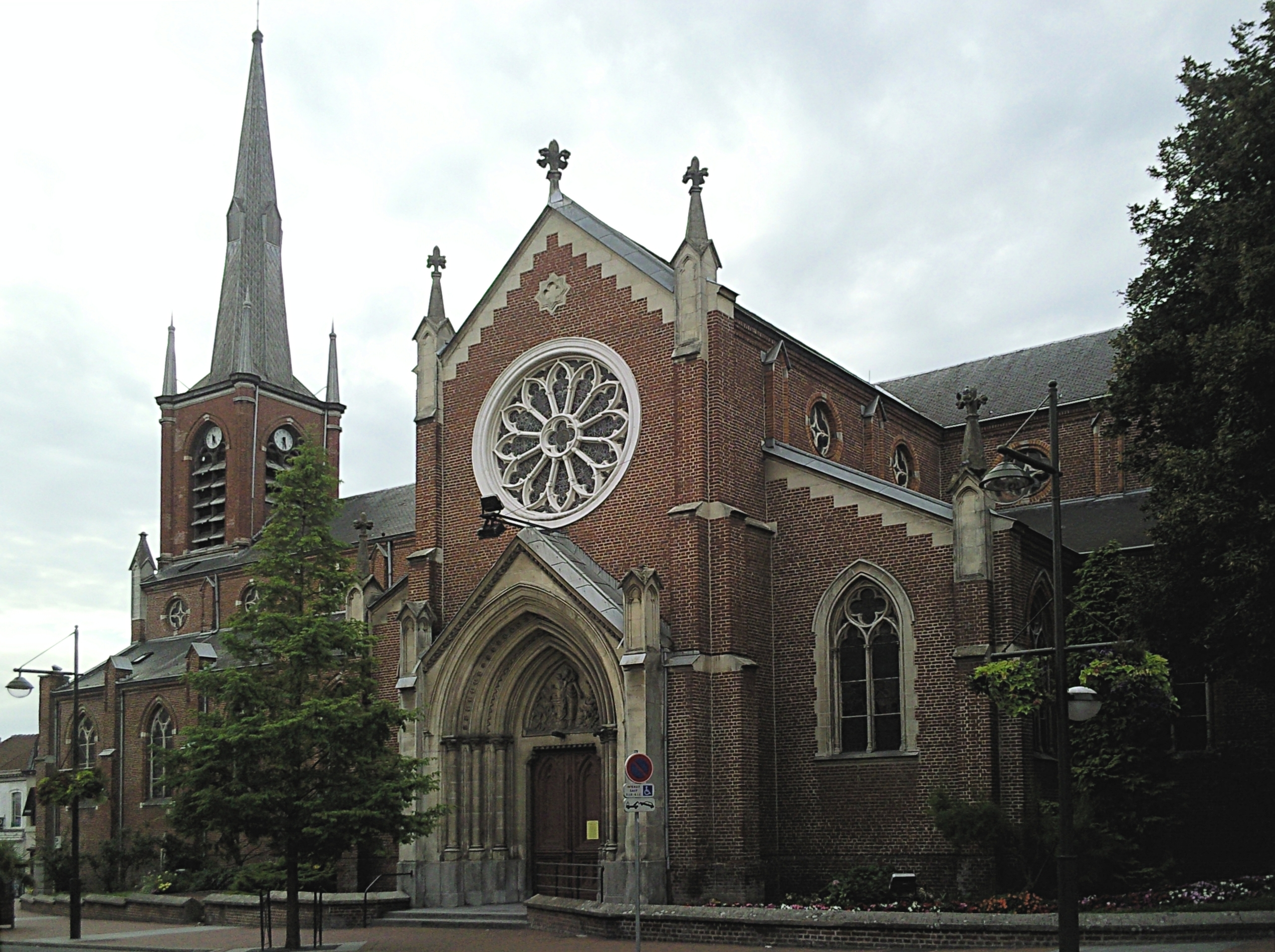 The Saint-Martin de Croix church in Croix, Nord, of the neogothic architectural style. Constructed in 1848 by the architect Théodore Lepers.